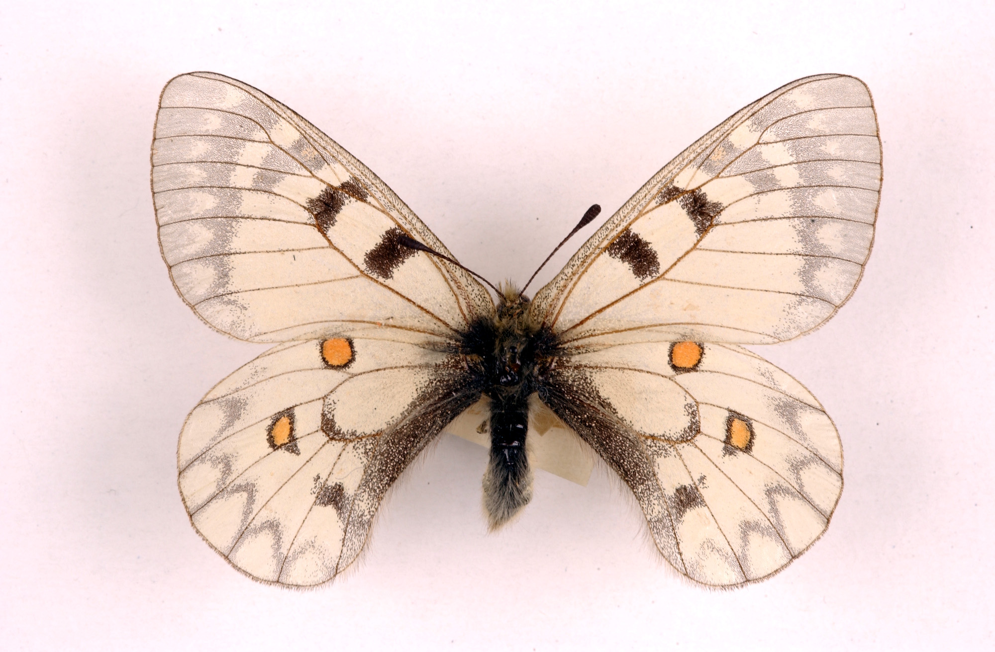 forma primopicta Peebles and Bryk. 1 male HOLOTYPE as follows:-1 male 559/ Alta; centr. mont./ clarius male dentata (sic)/ Type H.T./ 13/ Mr 7322 .Apparently a sub-species or 'forma' of Parnassius ariadne Lederer.We have failed to find a description. [Altai Mts., Mongolia 48 0N 90 0E Altai Province, Province, Sinkiang China,Mongolia 47 0N 89 0E].